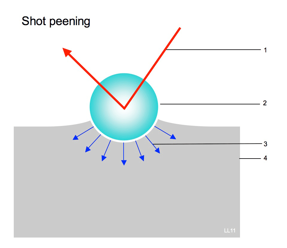 Shot peening. 1 Direction shot. 2 Shot. 3 Compression in/on the surface. 4. Surface.